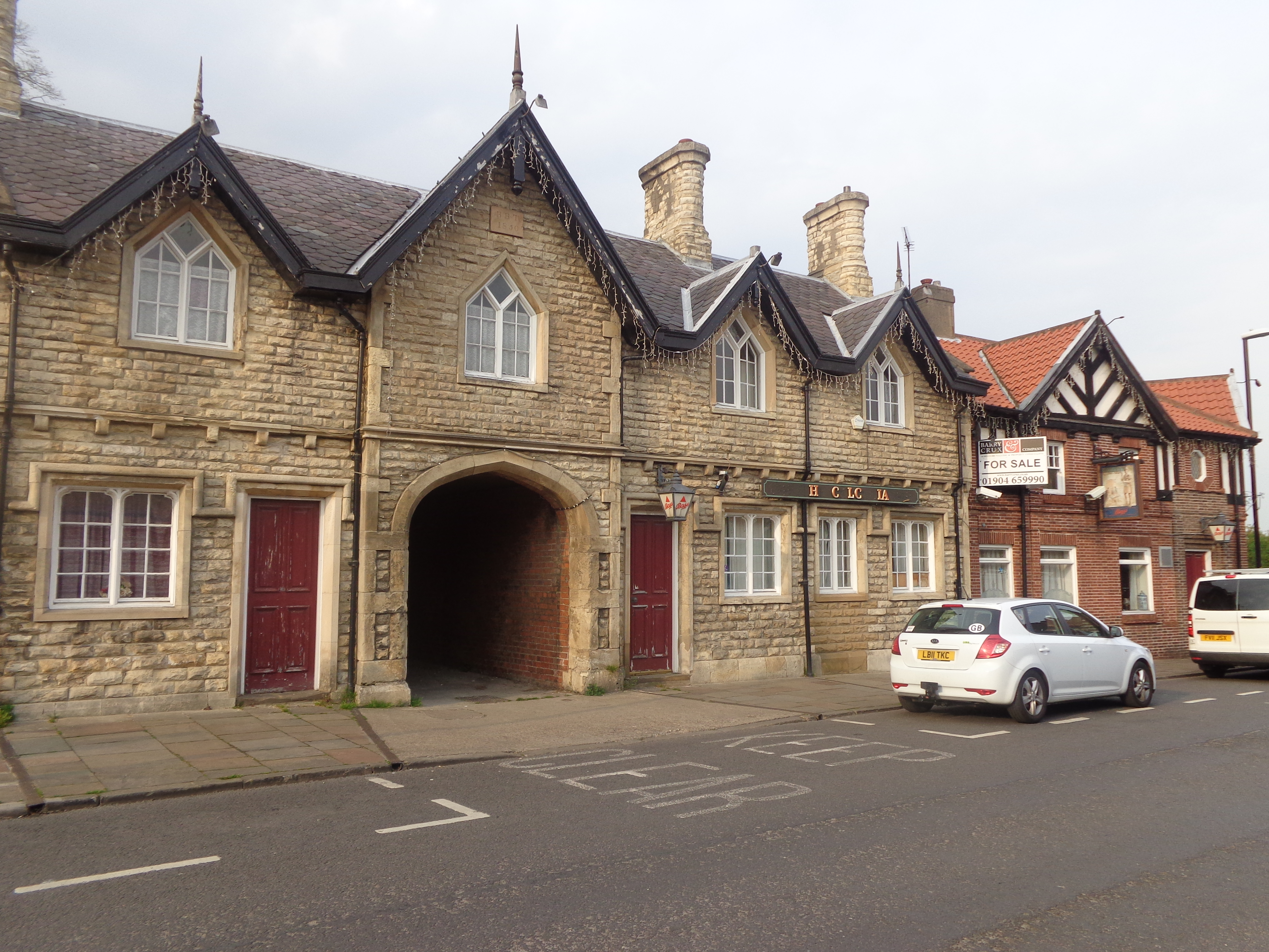 The Calcaria, Westgate, Tadcaster, North Yorkshire. Taken on the afternoon of Thursday the 24th of April 2014.